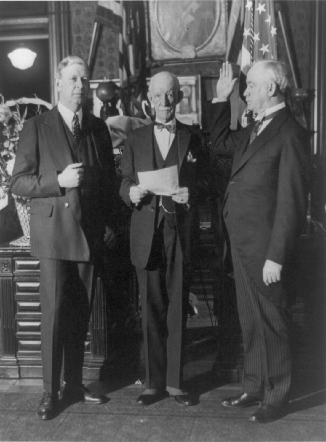 James W. Good sworn as War Secretary. Left to right: Former Secretary Dwight Davis, John B. Randolph, Assistant to Chief Clerk, who administered the oath, and Secretary Good.